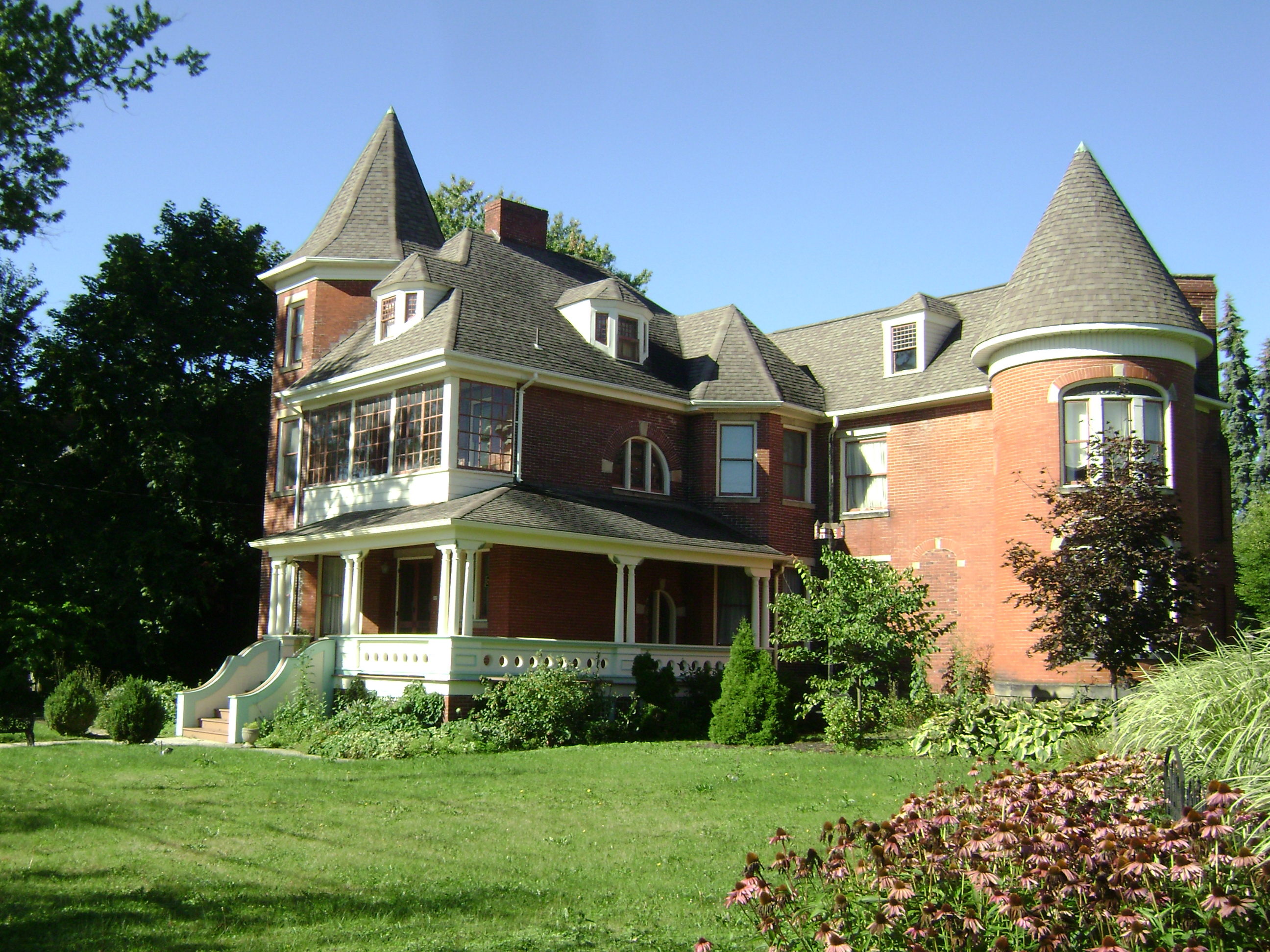 The A.W. Buck House, 615 North Center Street Ebensburg, is a Queen Anne style house built in 1889. The north-side wing and round end tower were added in 1903. The Cambria County Historical Society currently owns the house and operates it as a local museum. This photo was taken from the corner of N Center St and Highland Ave, northeast of the house.